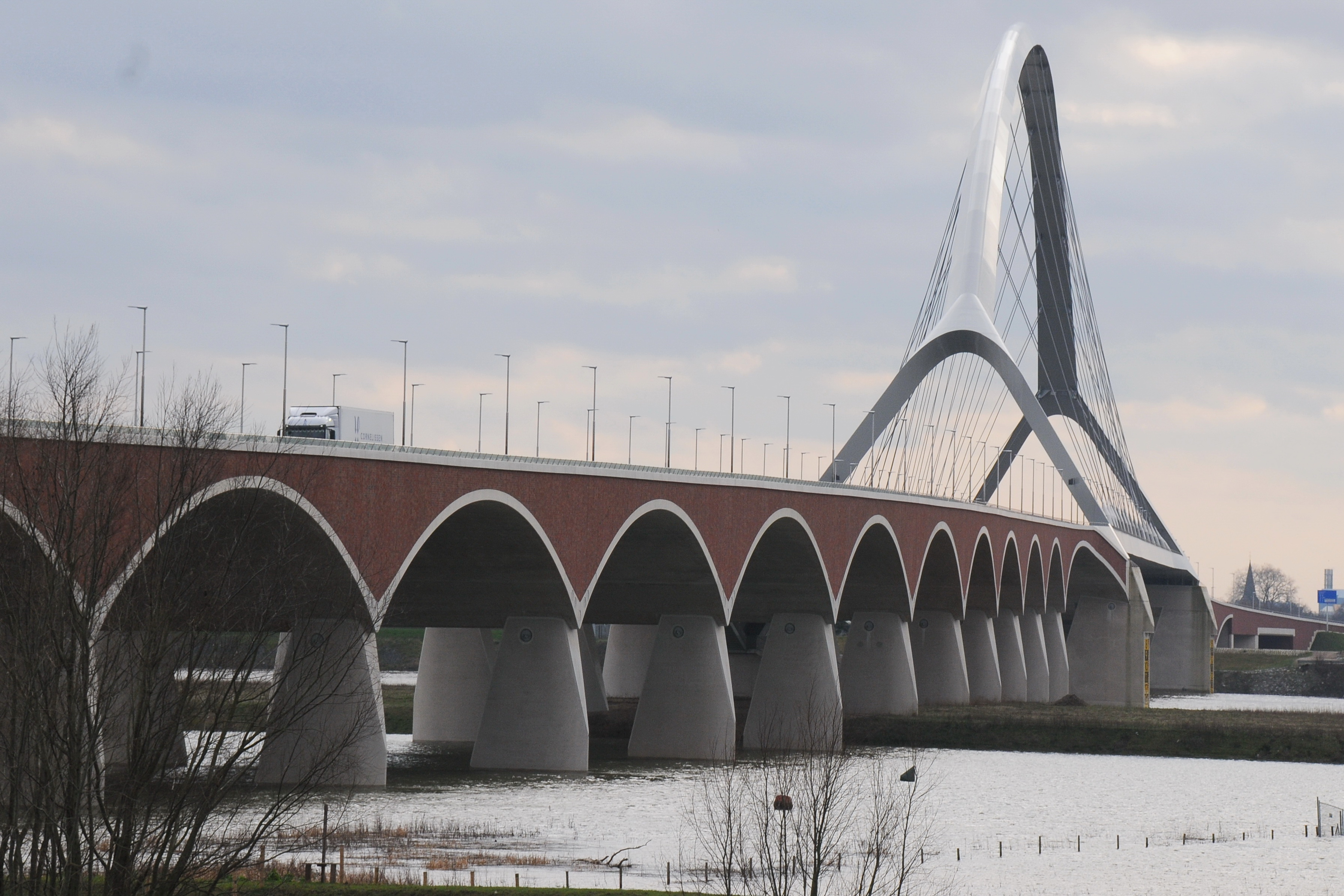 Waal river crossing bridge "de oversteek" at Nijmegen, as seen from the North-West